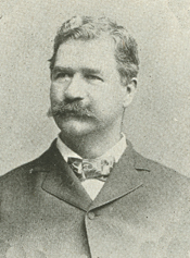 Former United States Representative from New York Denis M. Hurley.